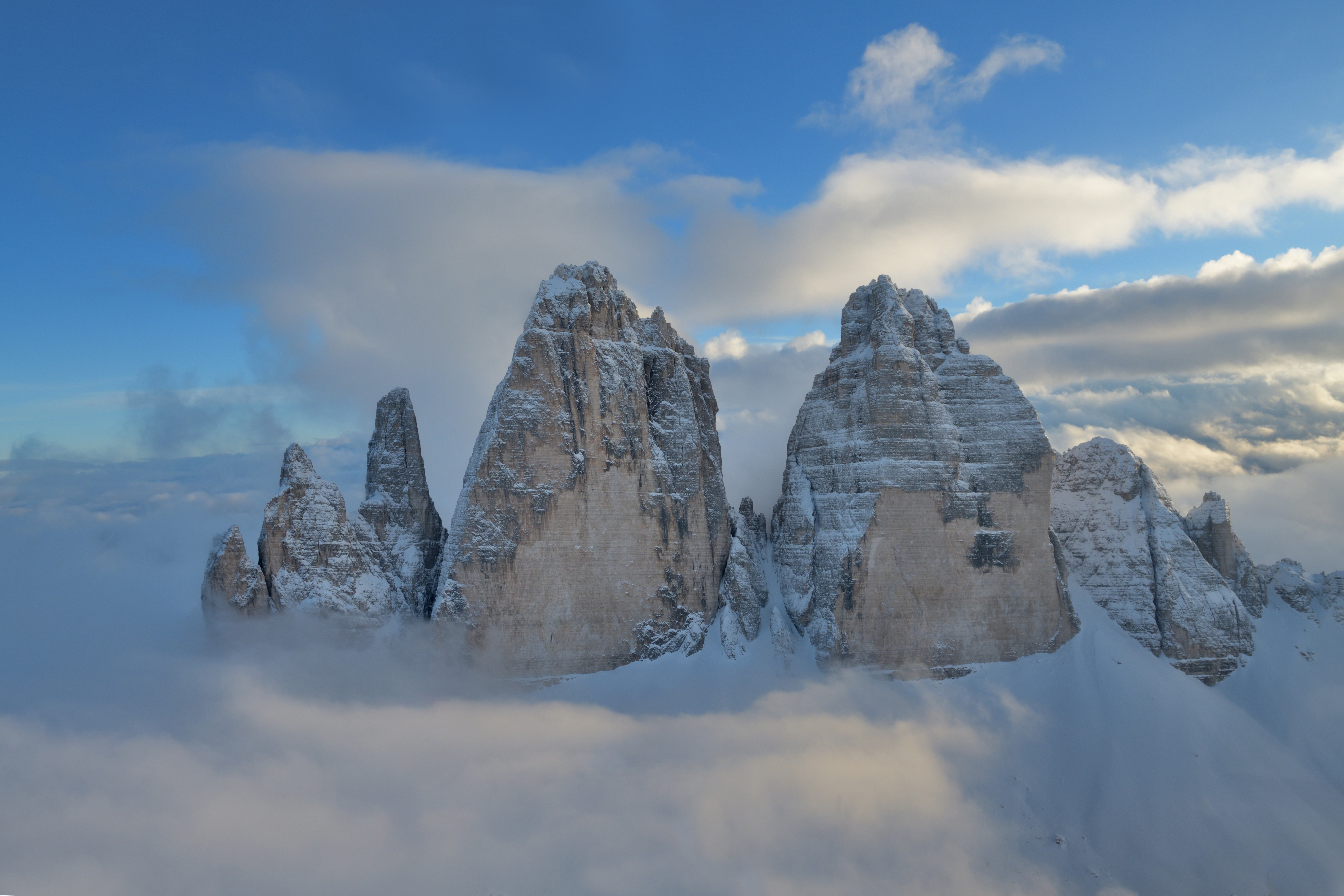 The Tre Cime di Lavaredo in the Dolomites - Aerial view from a helicopter of the Northern face - Dolomites UNESCO World Heritage Site.